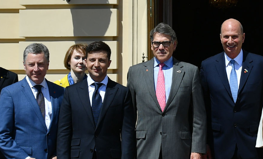 Kurt Volker, Volodymyr Zelensky, Rick Perry, and Gordon Sondland at the 20 May 2019 inauguration of Volodymyr Zelensky.